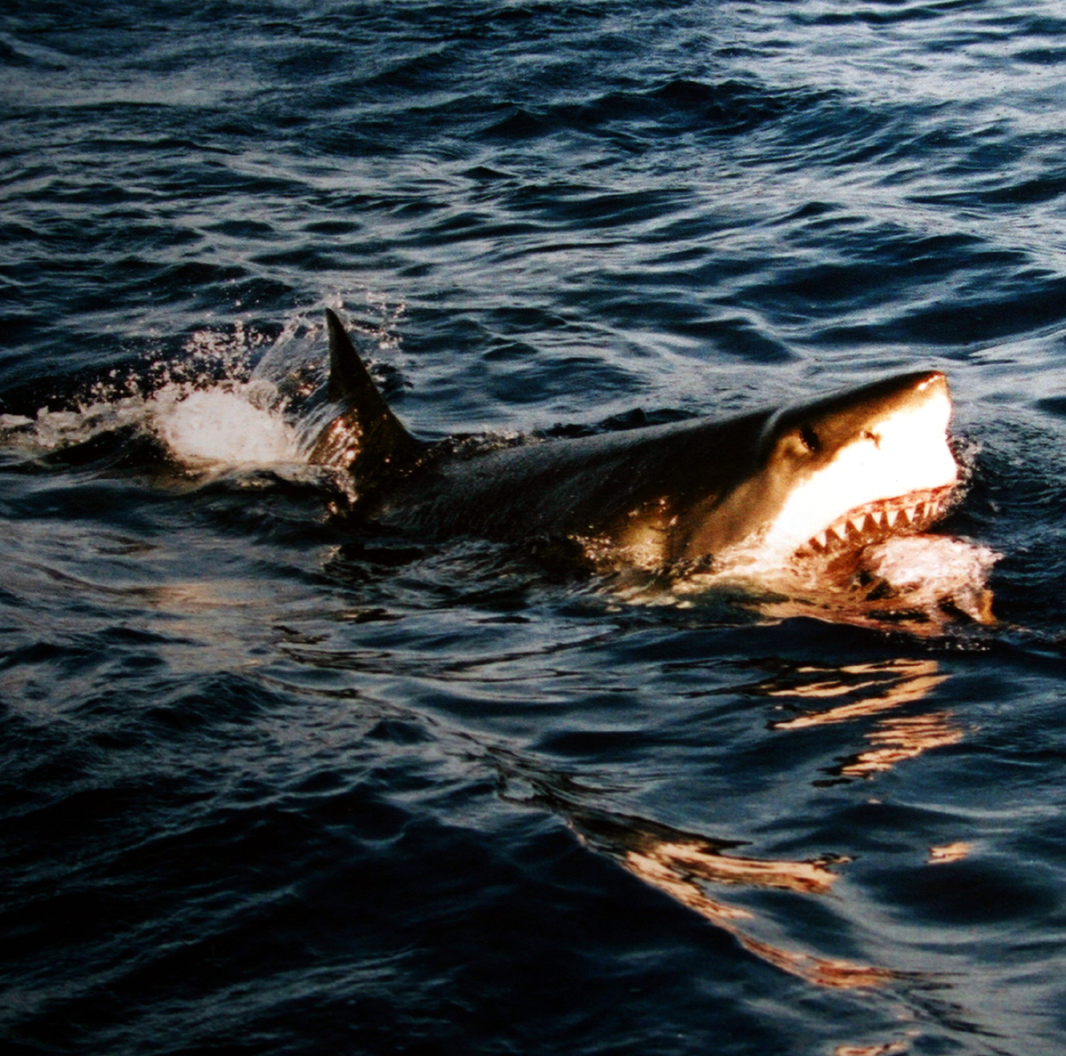 A great white shark at Isla Guadalupe, Mexico. The picture is a digital copy of my old film picture.